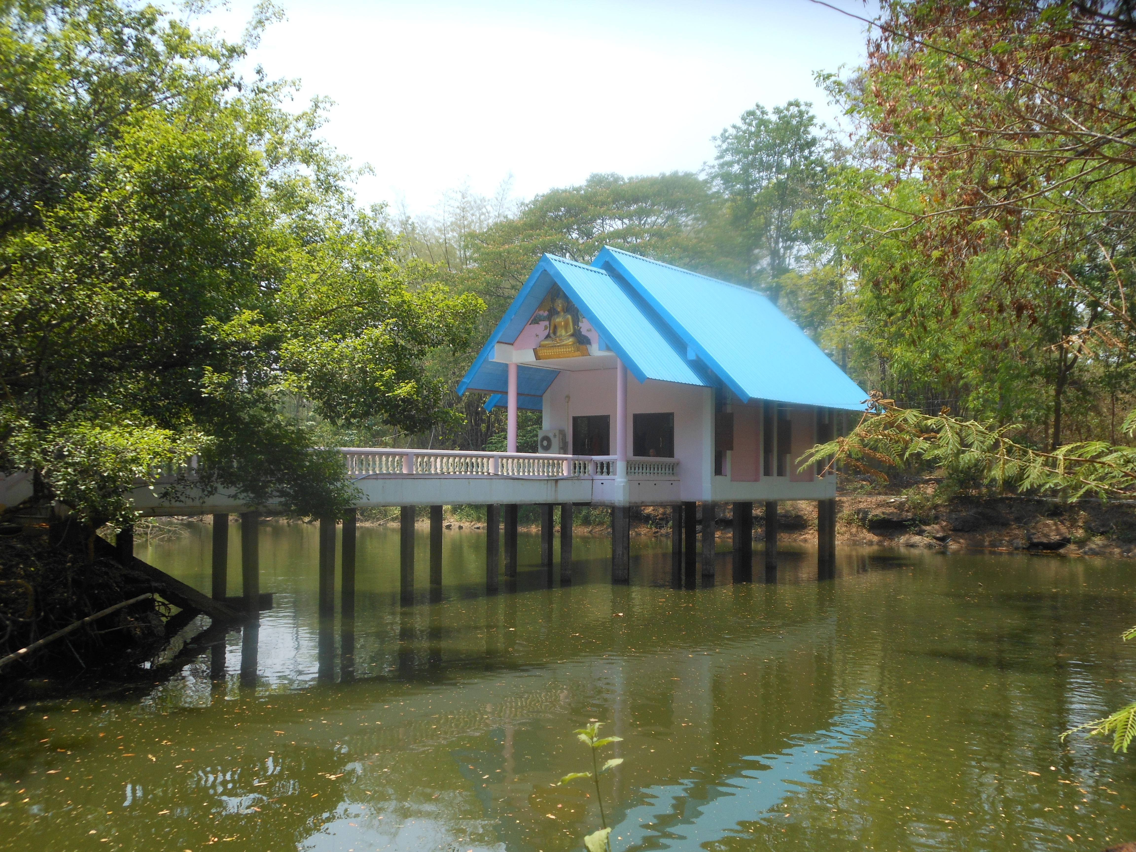 thai temple